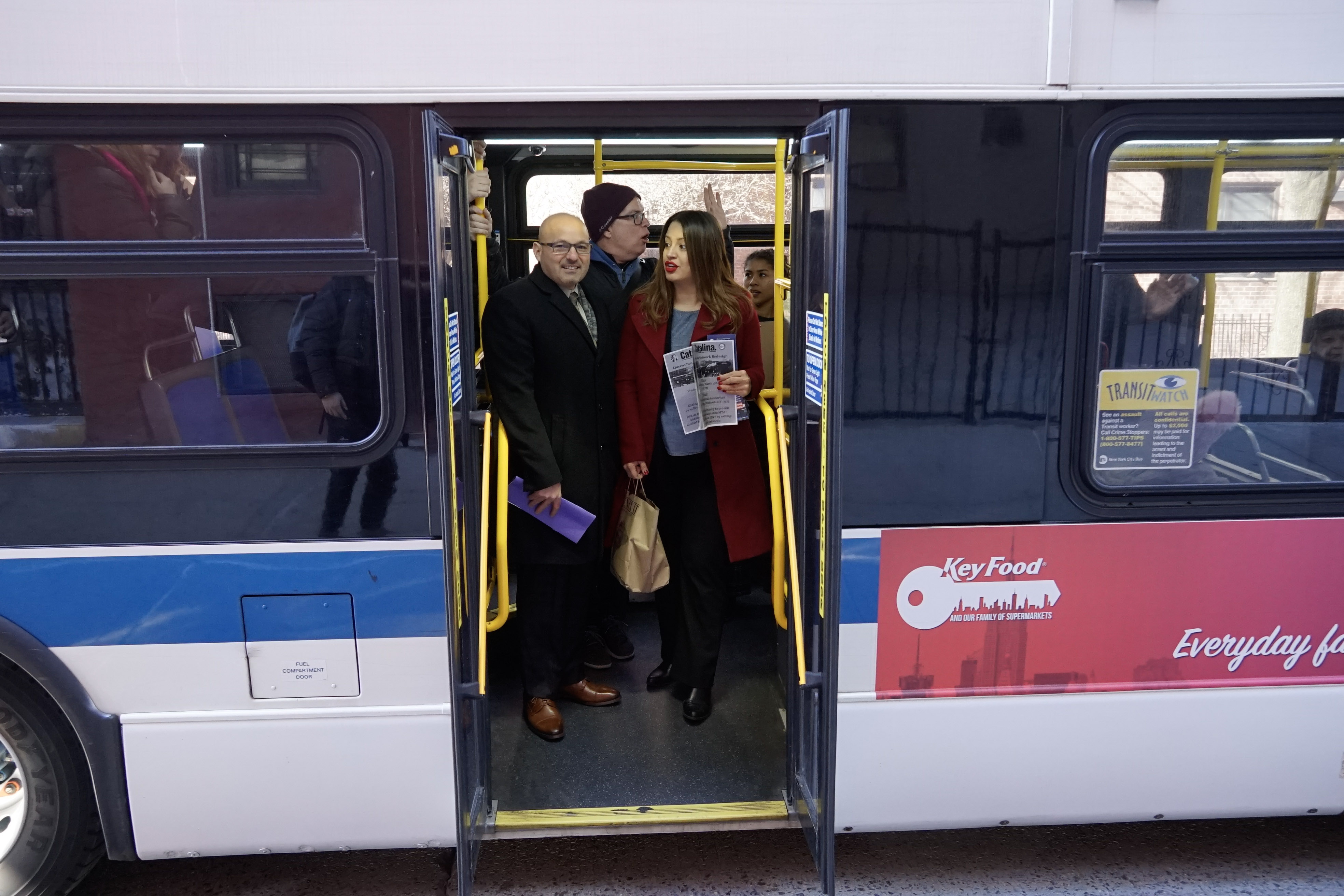 MTA Bus Company Acting President Craig Cipriano, members of the Riders Alliance and Queens Assemblymember Catalina Cruz speak with riders on the Q49 on Feb. 19, as the MTA solicits feedback on its comprehensive Queens Bus Network Redesign, the first major redesign of the bus network in generations. Photo: Mark Groce / MTA New York City Transit